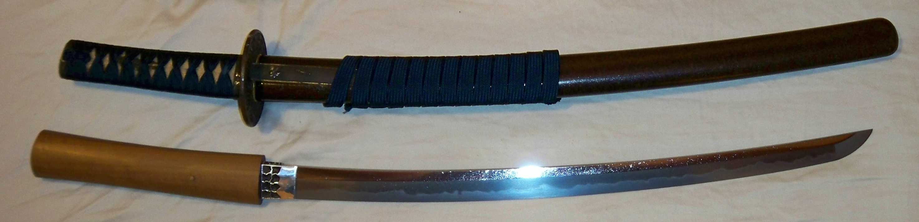 Antique Japanese Edo period wakizashi and koshirae.